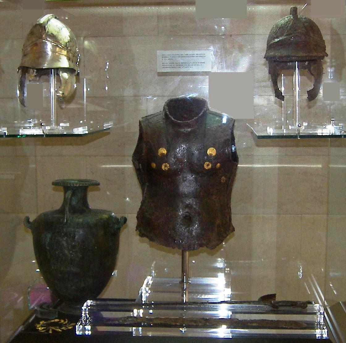 Closeup of the hoplite armour exhibit at the Corfu Museum